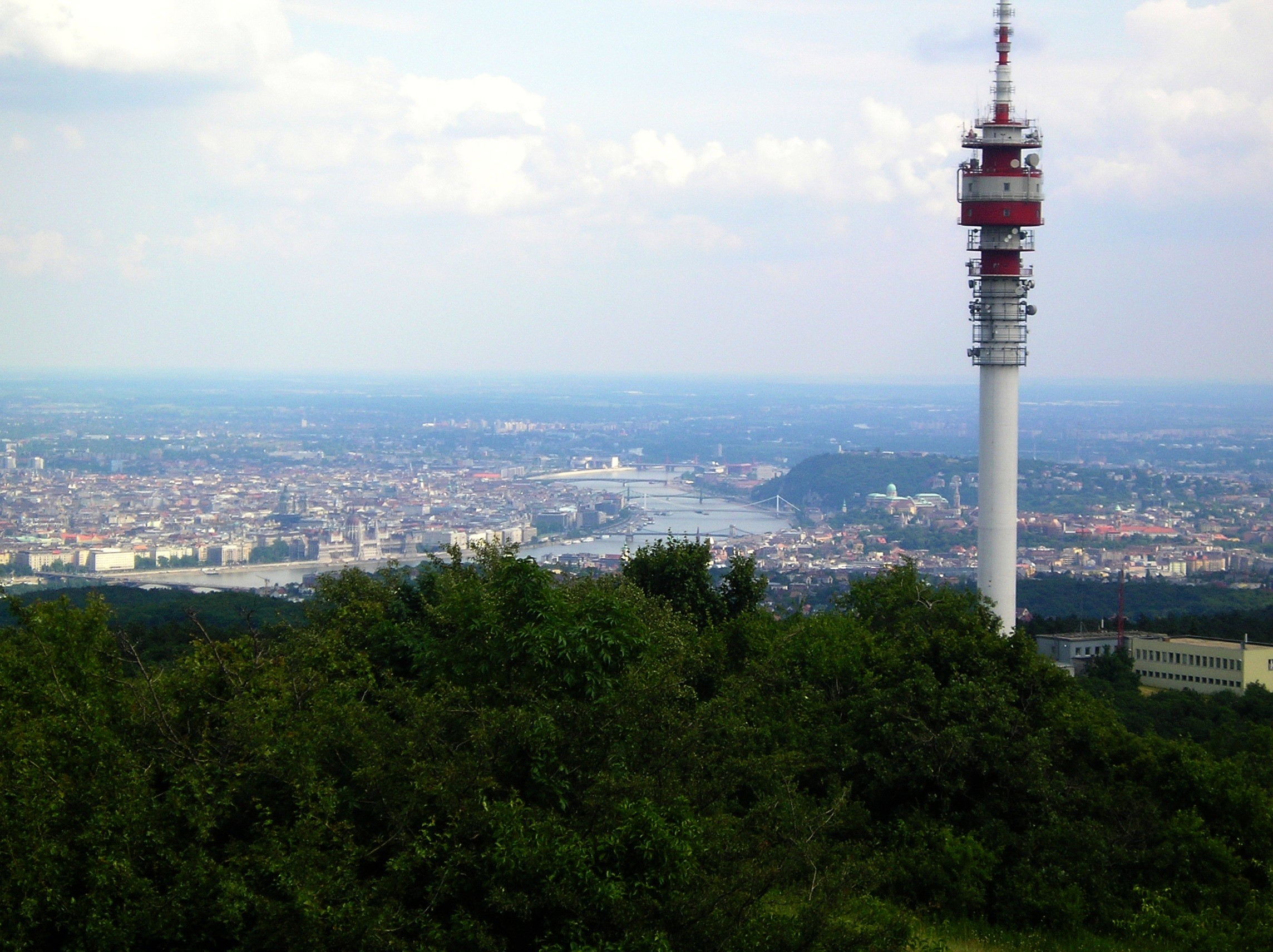 dorfnerw, Self-made, no copyright. This is a picture of the city of Budapest from Hármashatárhegy. Date: 2005.06.11